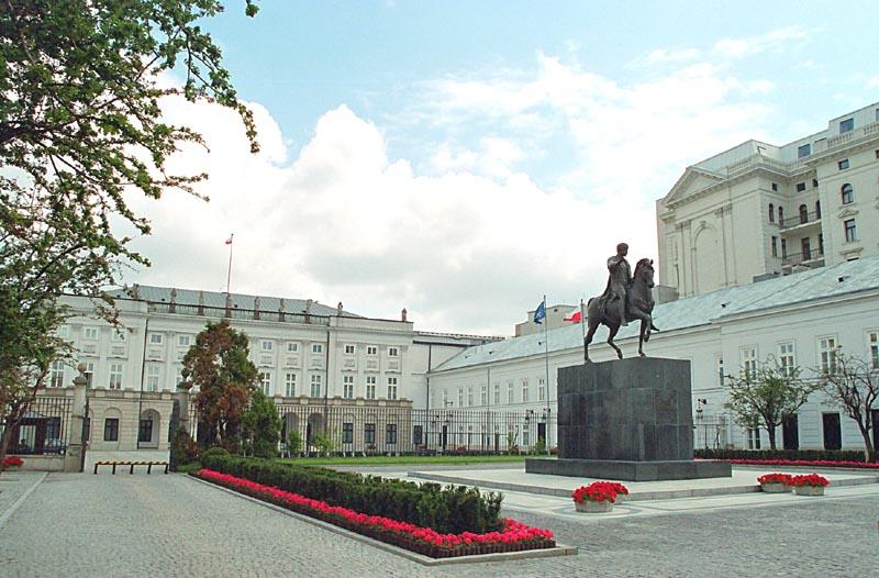 Presidental Palac in Warsaw